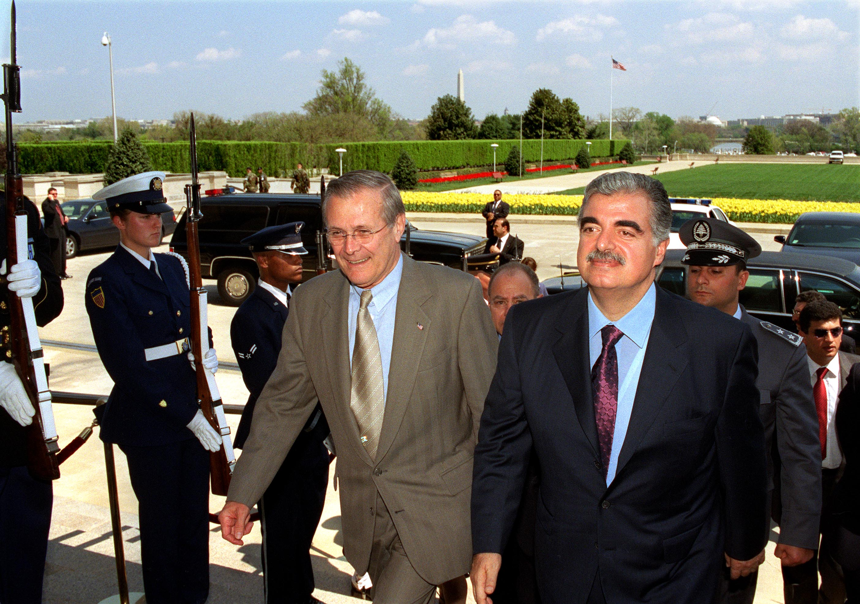 Secretary of Defense Donald H. Rumsfeld (left) escorts Lebanese Prime Minister Rafiq Hariri through an honor cordon and into the Pentagon for a meeting on April 16, 2002.